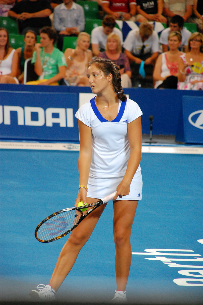 Laura Robson from Great Britain is ready to serve during the mixed double match in Hopman Cup XXII, Perth, Western Australia.